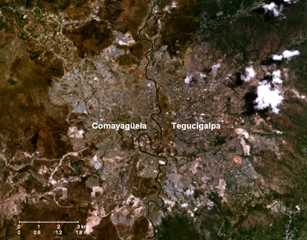 Satellite image showing the metropolitan area of Tegucigalpa—Comayagüela, the capital of Honduras — outlining the Choluteca River.